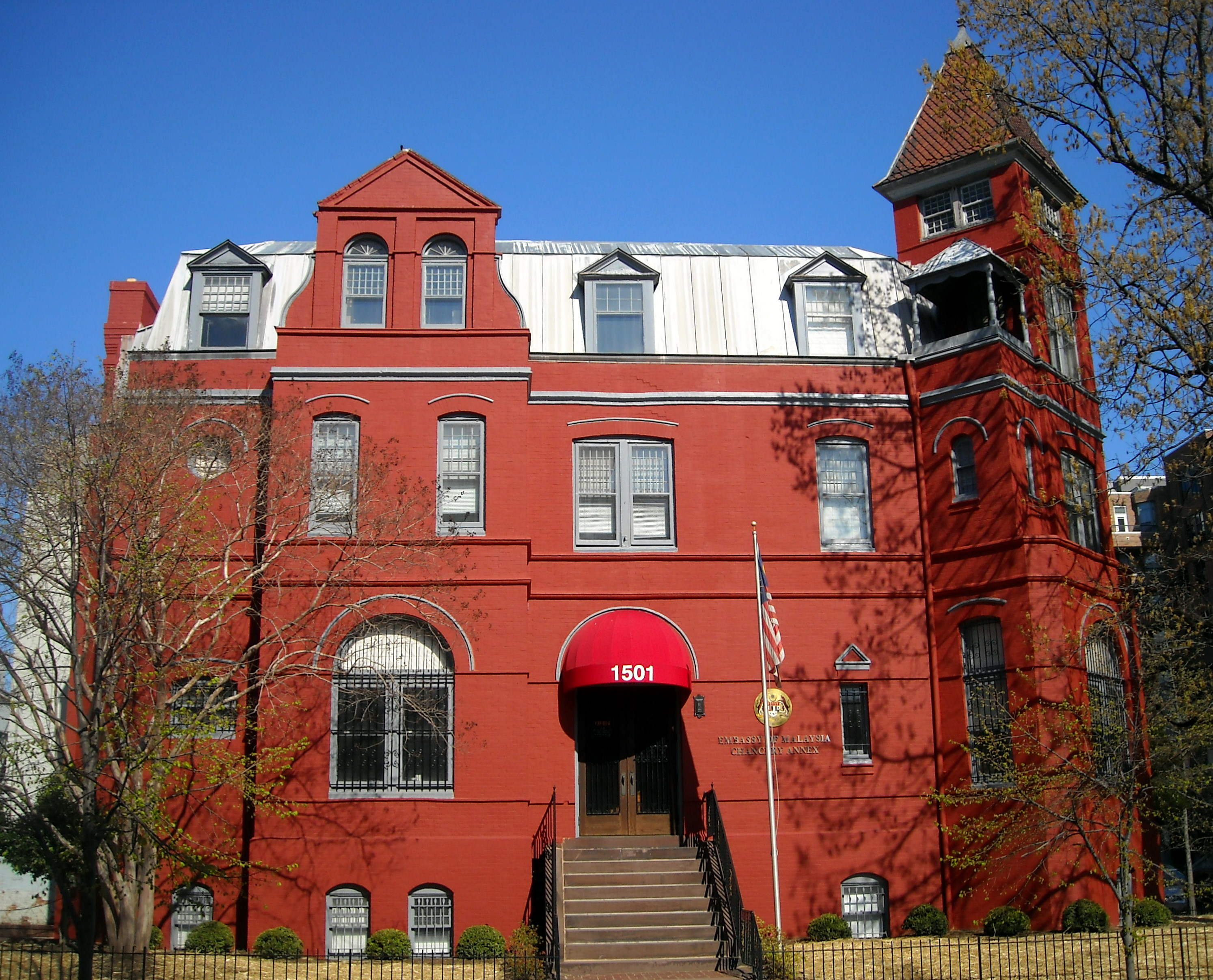 The Embassy of Malaysia, Chancery Annex (includes the MARA Students Office) — located at 1501 18th Street NW, in the Dupont Circle neighborhood of Washington, D.C.. The Queen Anne building was constructed in 1883 for Otis Bigelow. It's a contributing property to the Dupont Circle Historic District and valued at $2,765,960. Notable past owners of the building include Daniel Manning, George G. Symes, the government of France (office of the French embassy's military attaché), Gregory Wilenkin (financial agent for the Russian embassy), March for Life Education & Defense Fund (organizes the annual March for Life), Brazilian Aeronautical Commission, Southern Education Foundation, Everett Lake Crawford (author), and the Potomac Institute for Policy Studies (during Harold C. Fleming's presidency). Also of note, Philip S. Hochborn (Elinor Wylies second husband), killed himself inside the building after Elinor left him for another man (Horace Wylie).